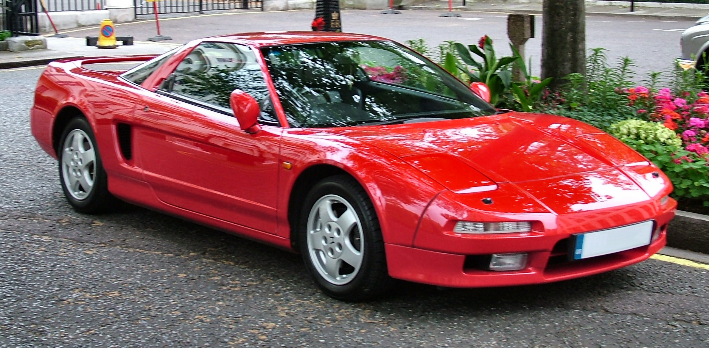 A Honda NSX, version NA1 (1990–1996), marketed as an Acura NSX in the United States, Canada and Hongkong. This car is a pre 1994 model (5 spoke wheels instead of 7 spoke wheels). 9 ISO: 200